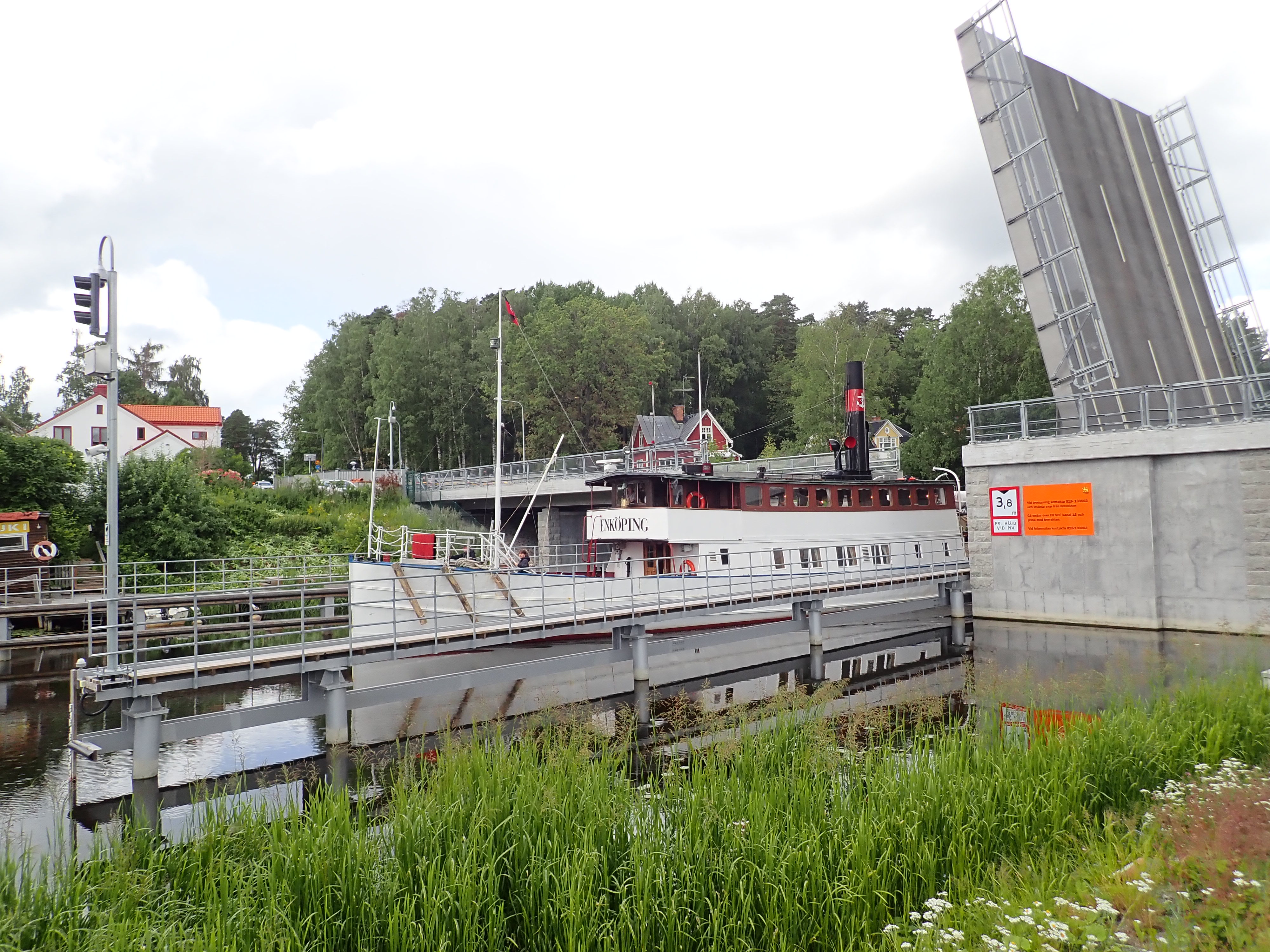 M/S Enköping from 1868 passing under the Flottsund bridge in the Fyris river on her way from the centre of Uppsala to Mälaren on July 6, 2019. The picture is taken from the Kungshamn-Morga nature reserve.